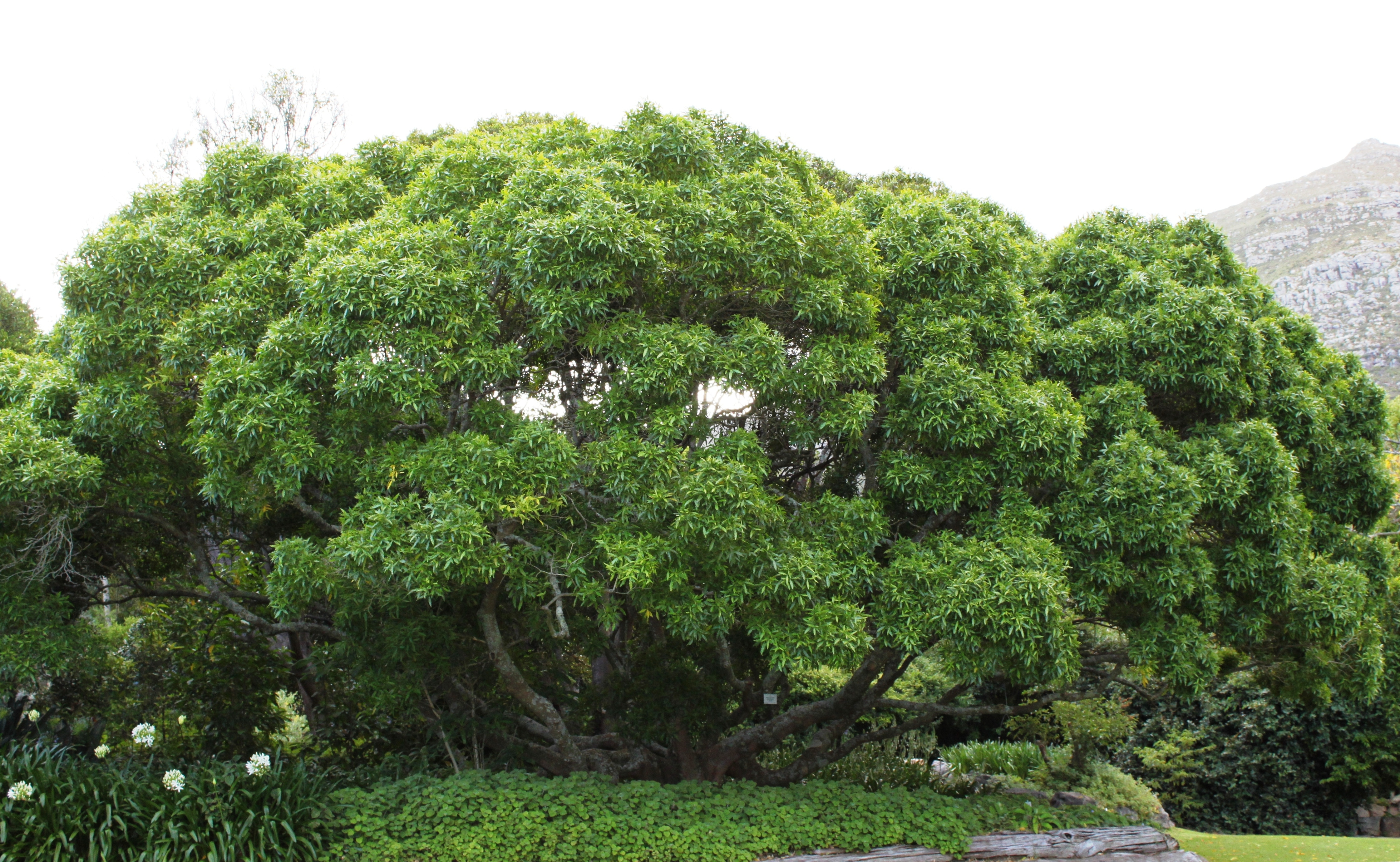 White Ironwood tree of South Africa